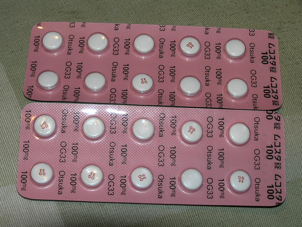 MUCOSTA (rebamipide) 100 mg tablets from Otsuka Pharmaceutical.